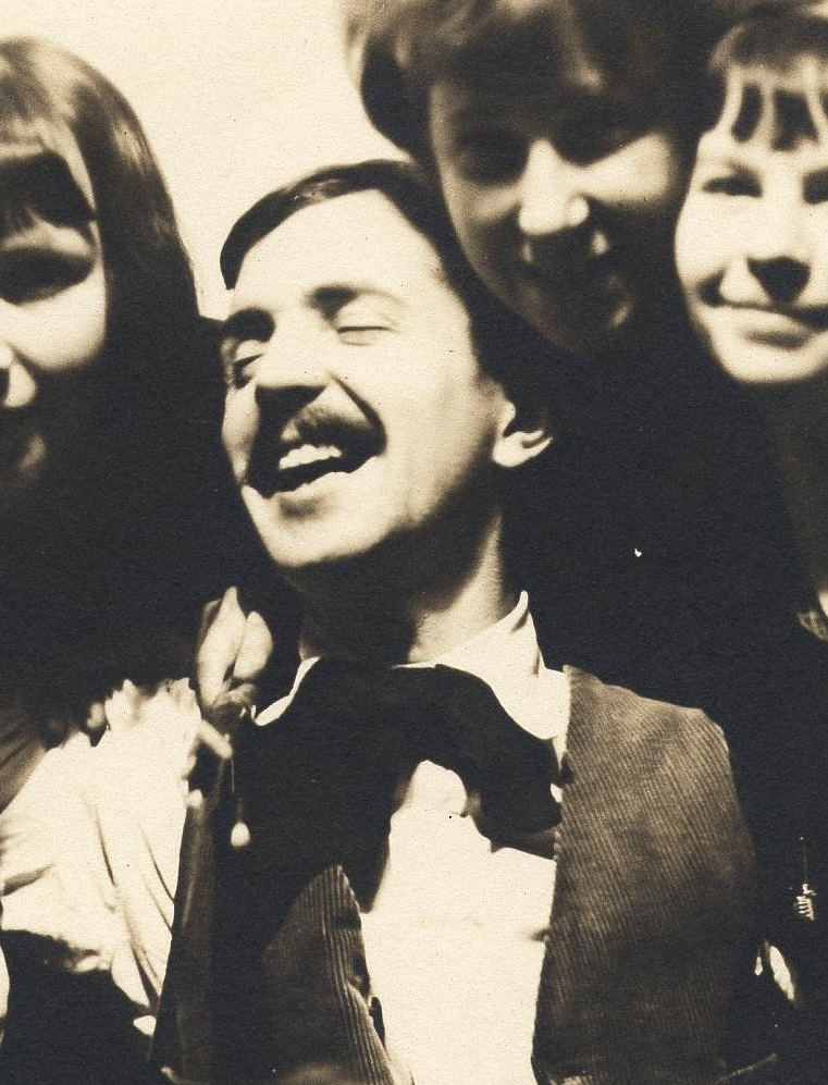 American painter Niles Spencer (1893–1952) photographed at a party at the home of Yasuo Kuniyoshi.